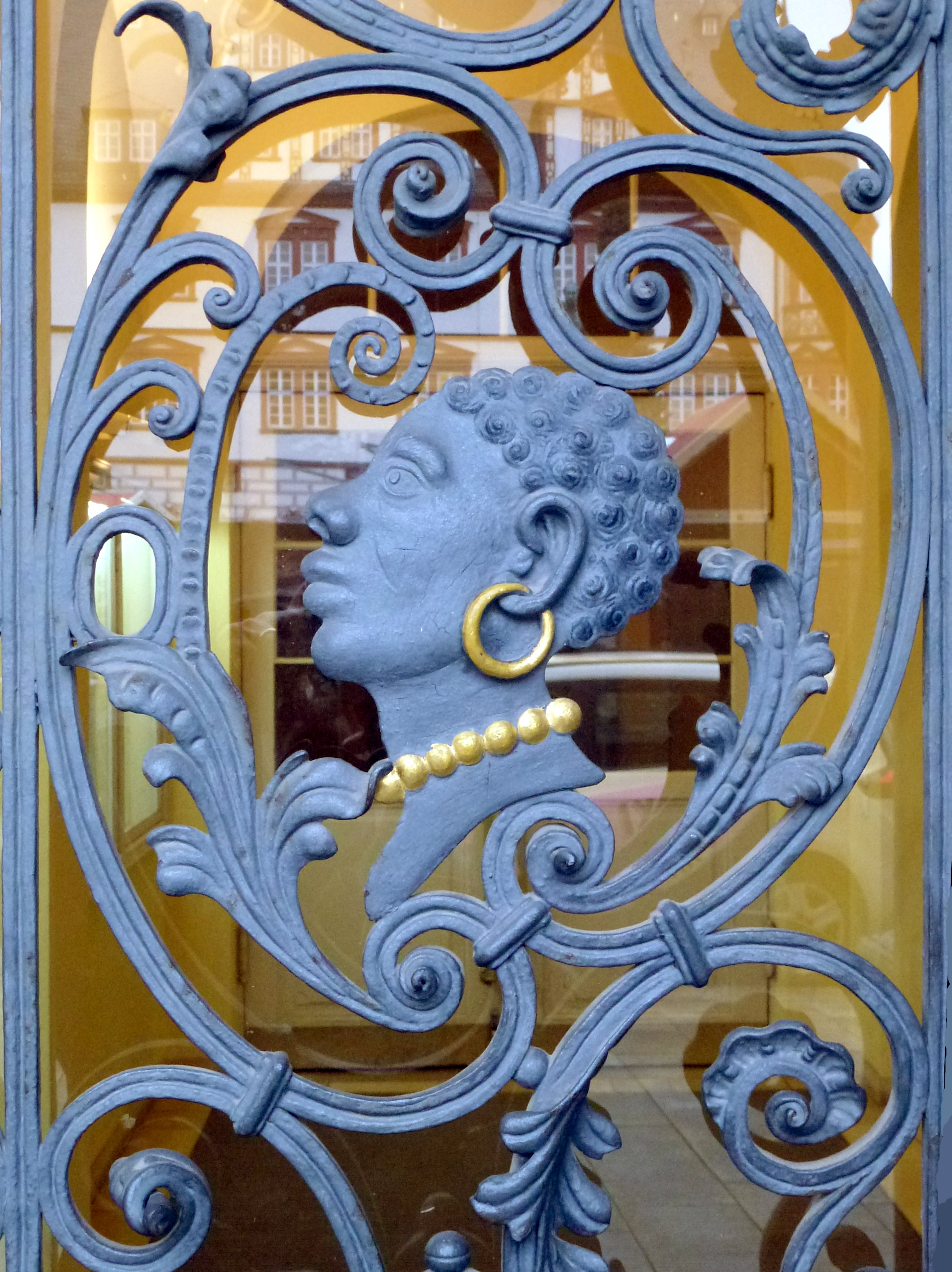 Coburg Moor in wrought iron grille door of City Hall